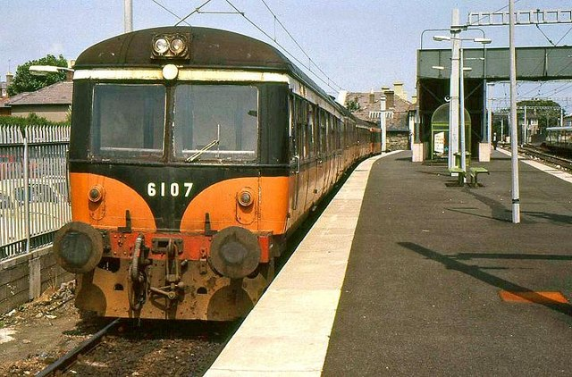 CIÉ train to Greystones formed of former 2600 Class railcars at Bray, Co. Wicklow, Ireland